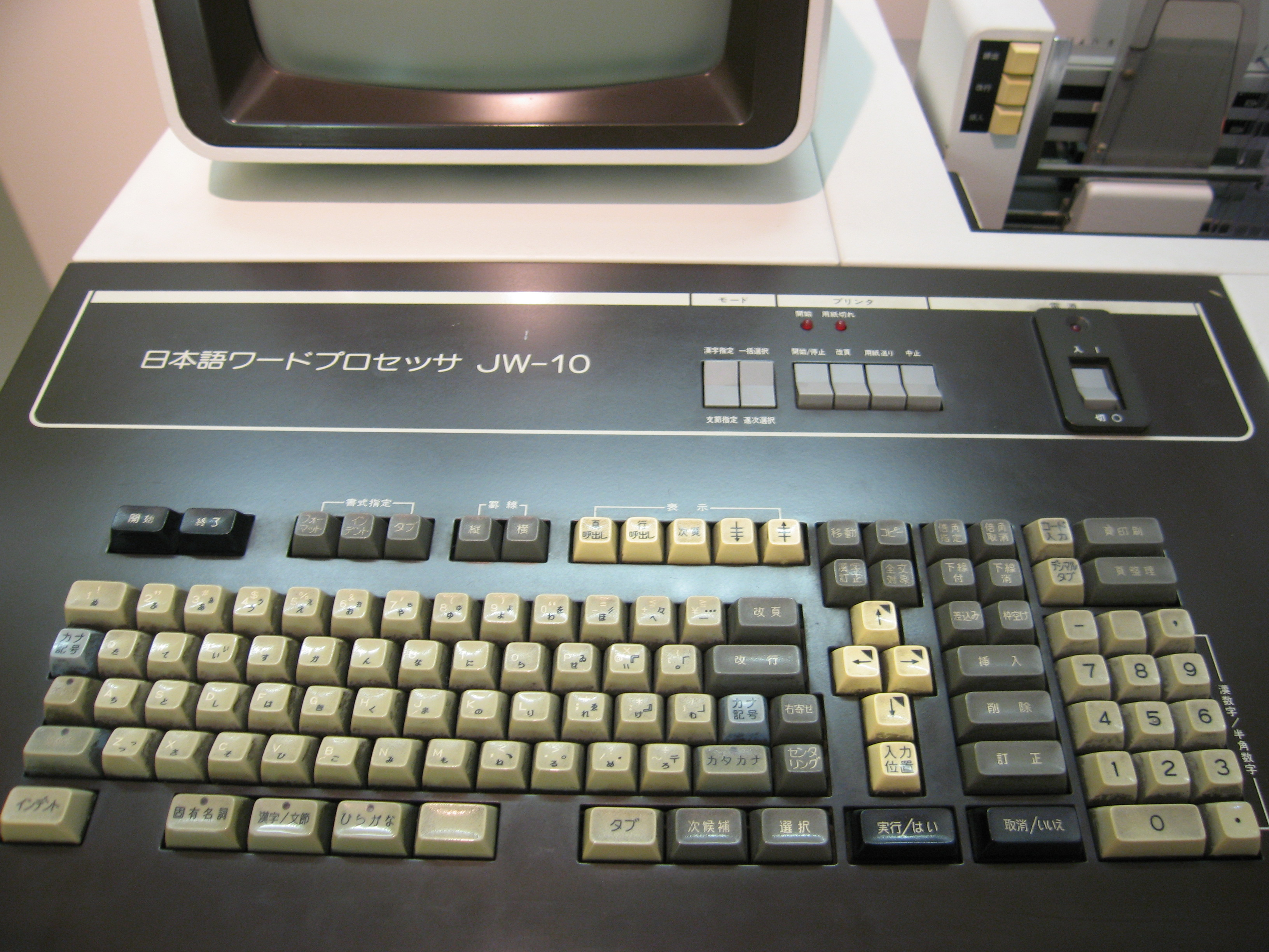 "JW-10"keyboard (World First Japanese Word processor 1978) at Toshiba Science Museum, Kawasaki, Japan